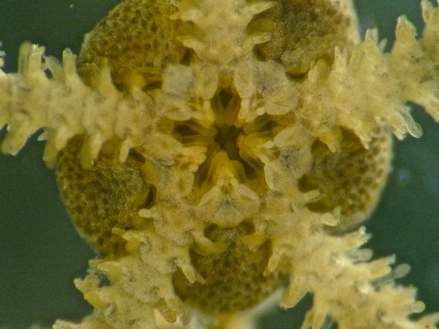 Amphipholis squamata found on Great Cumbrae, Scotland